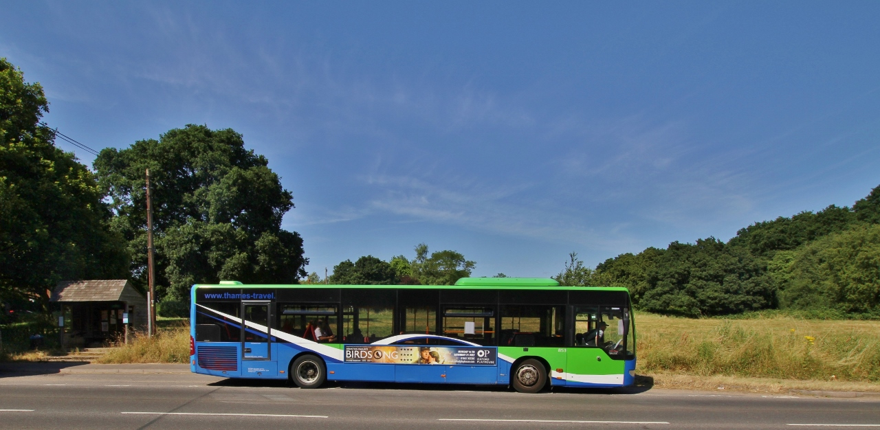 A Thames Travel bus on route X38 at The Green, Nettlebed, Oxfordshire. The bus is a Mercedes-Benz Citaro, registration mark RF56 OXF, fleet number 853.